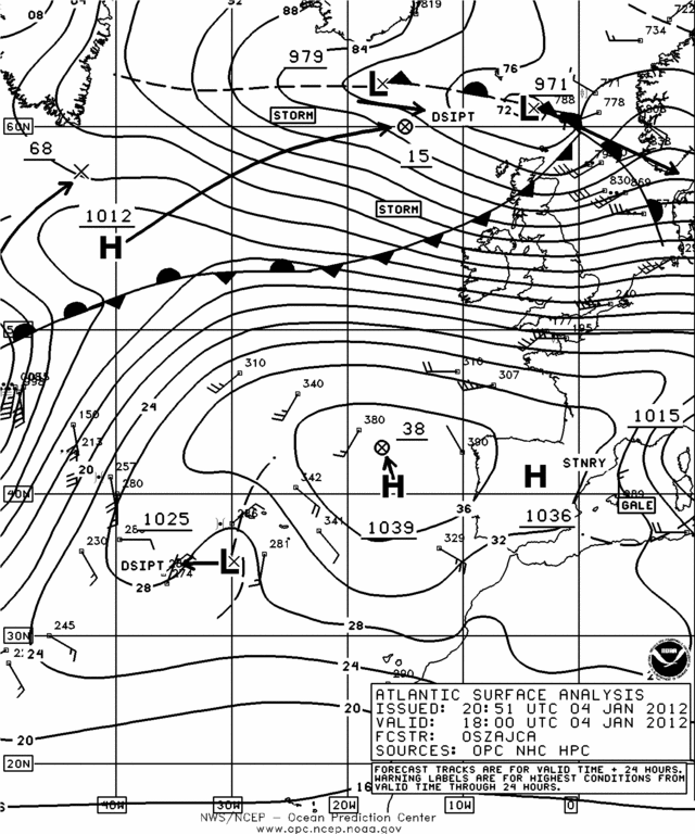 Surface weather map of Eastern Atlantic coast when cyclone Andrea was approaching the North Sea on January 4th, 2012 at 20 UTC.